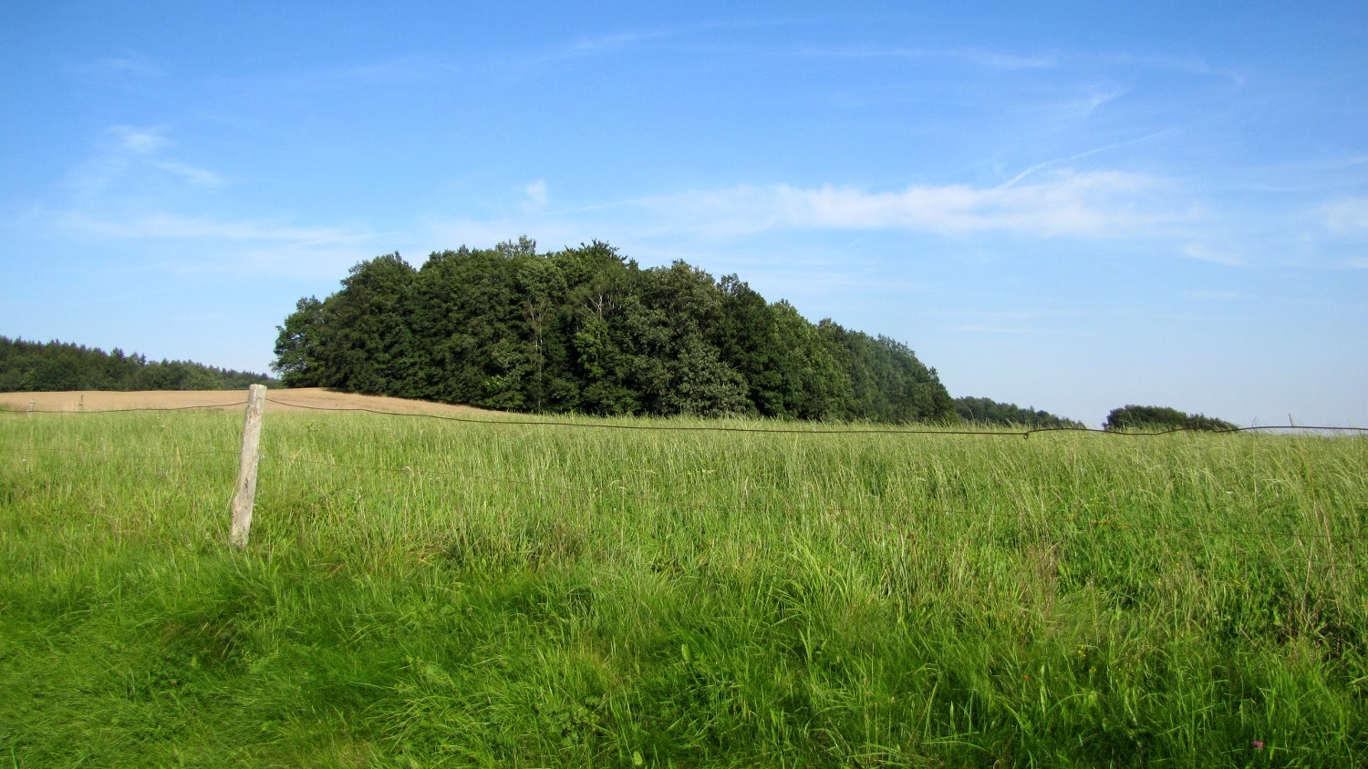 Güttlerbüschl, hill near Neusalza-Spremberg, Saxony